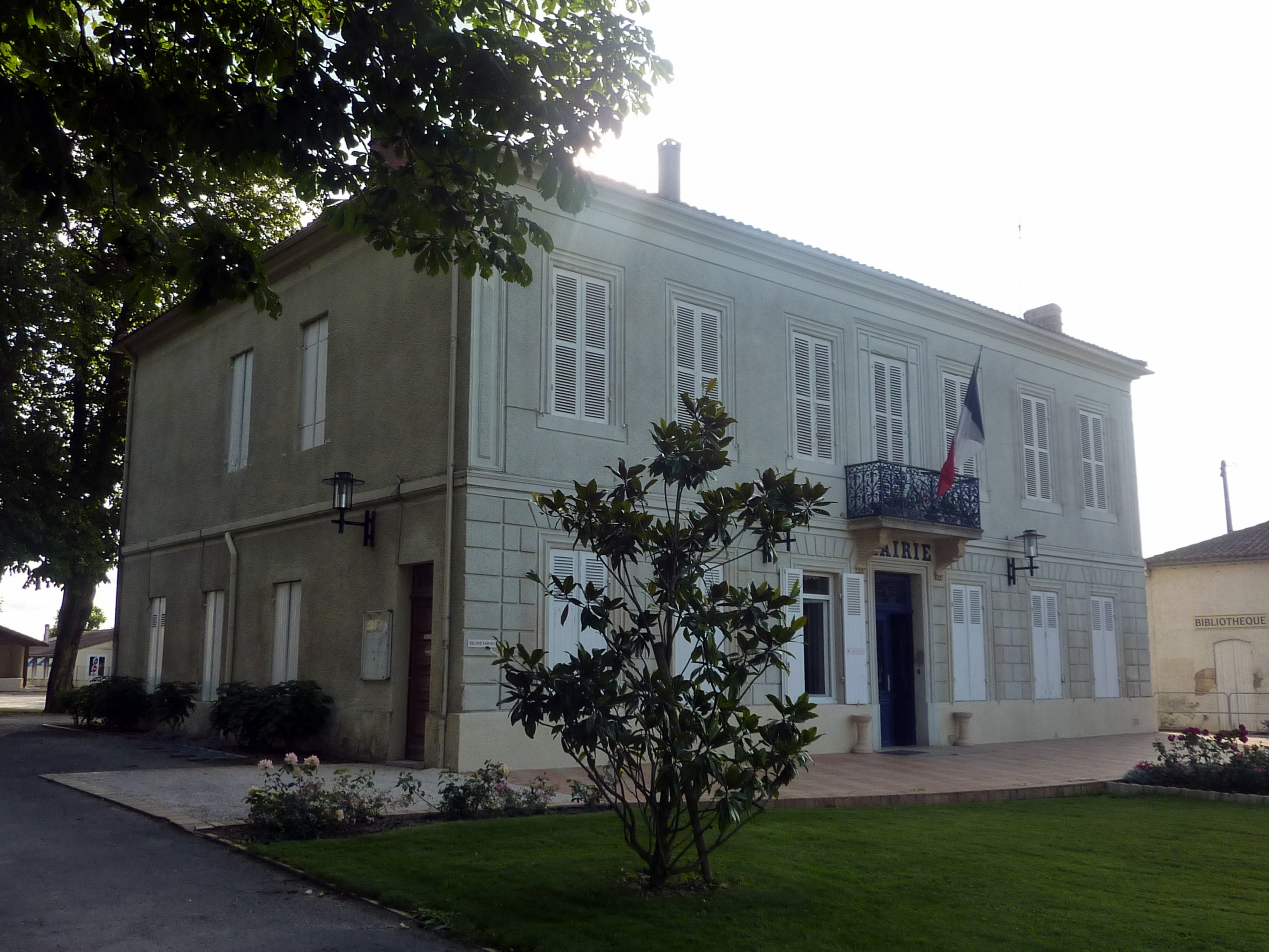 Town hall of Saint-Estèphe, Gironde, France